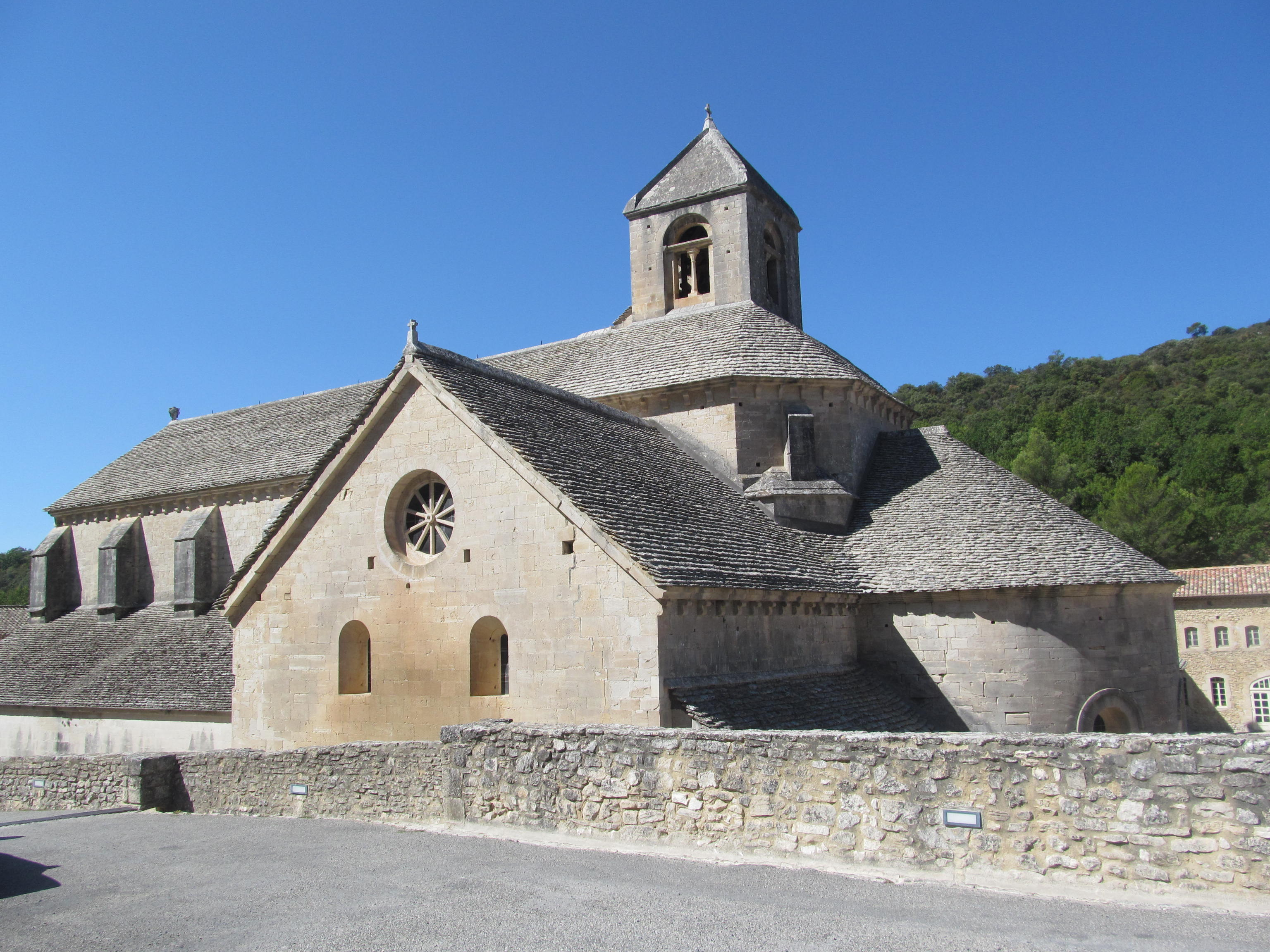 Abbey Church in Sénanque